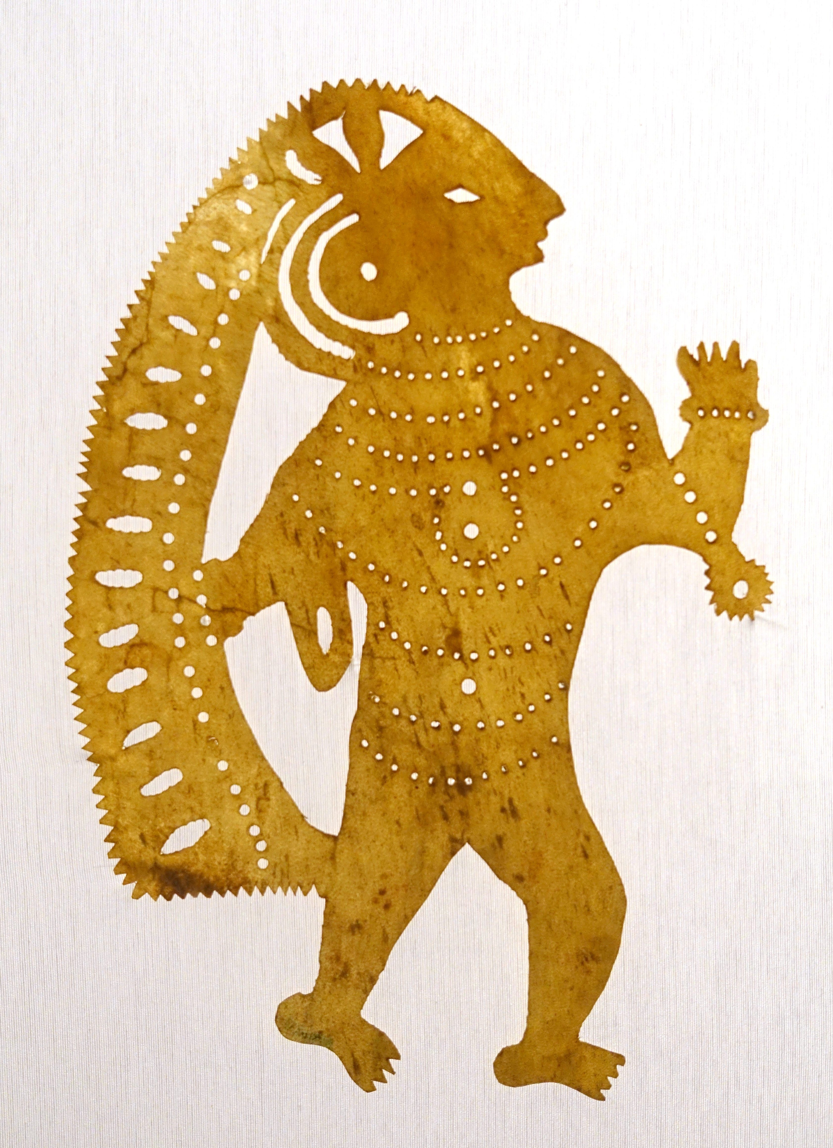 Exhibit in the Museu do Oriente - Lisbon, Portugal. This work is old enough so that it is in the public domain.